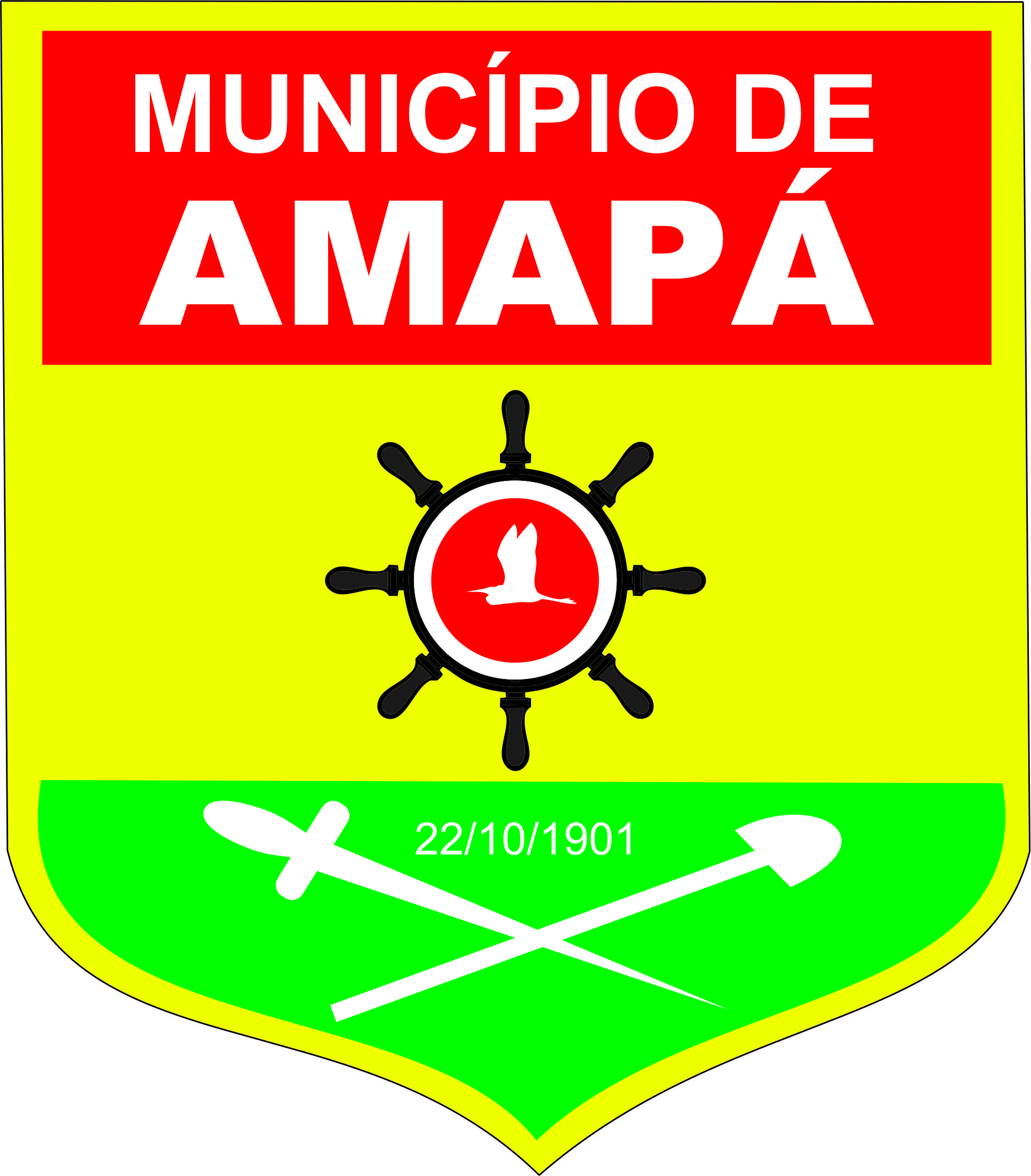 Brasão do Município de Amapá